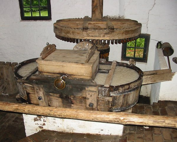 Beater (hollander) for cutting the pulp's fibres into correct size